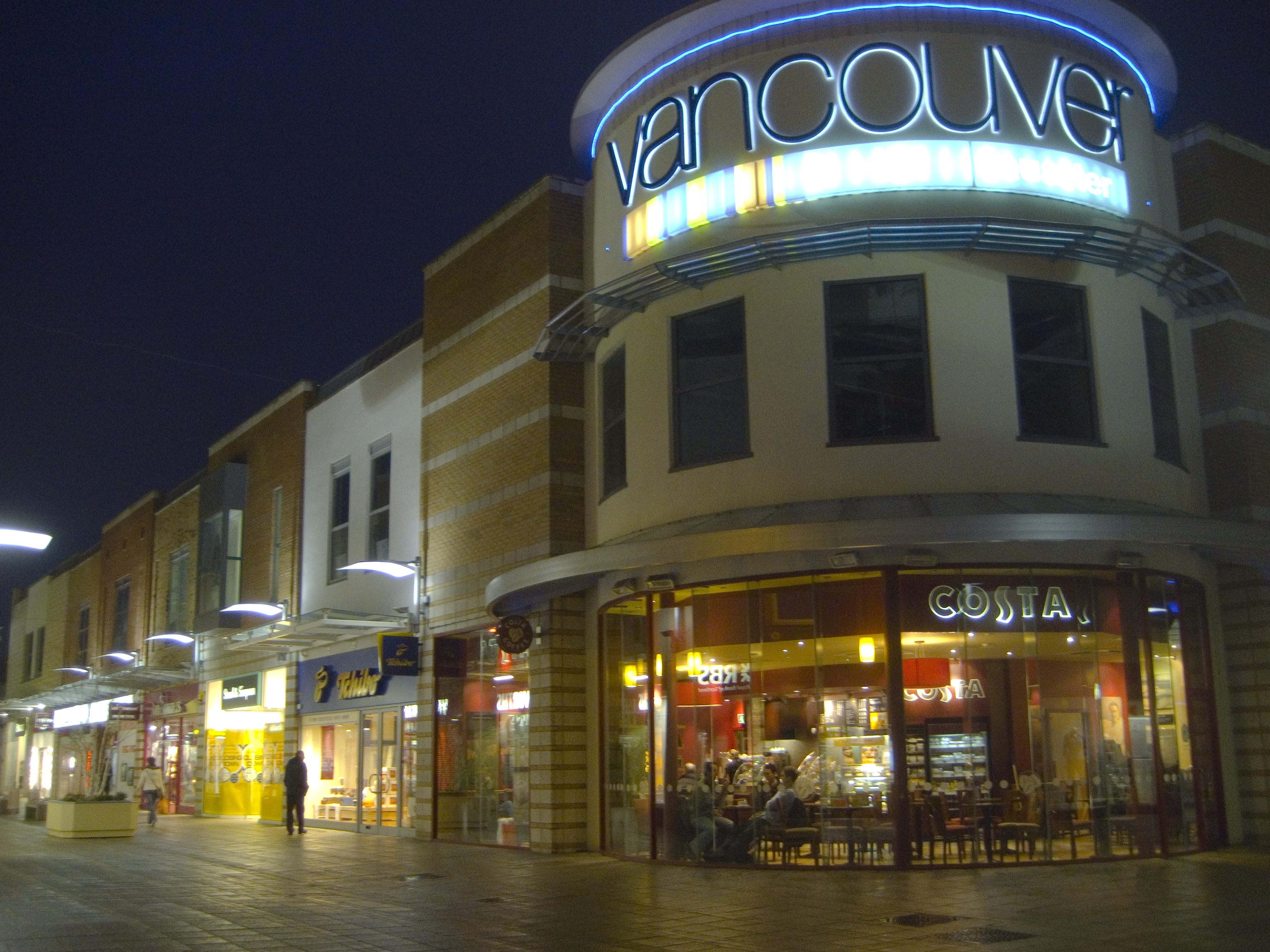 Entrance to the Vancouver Quarter Shopping Centre, King's Lynn